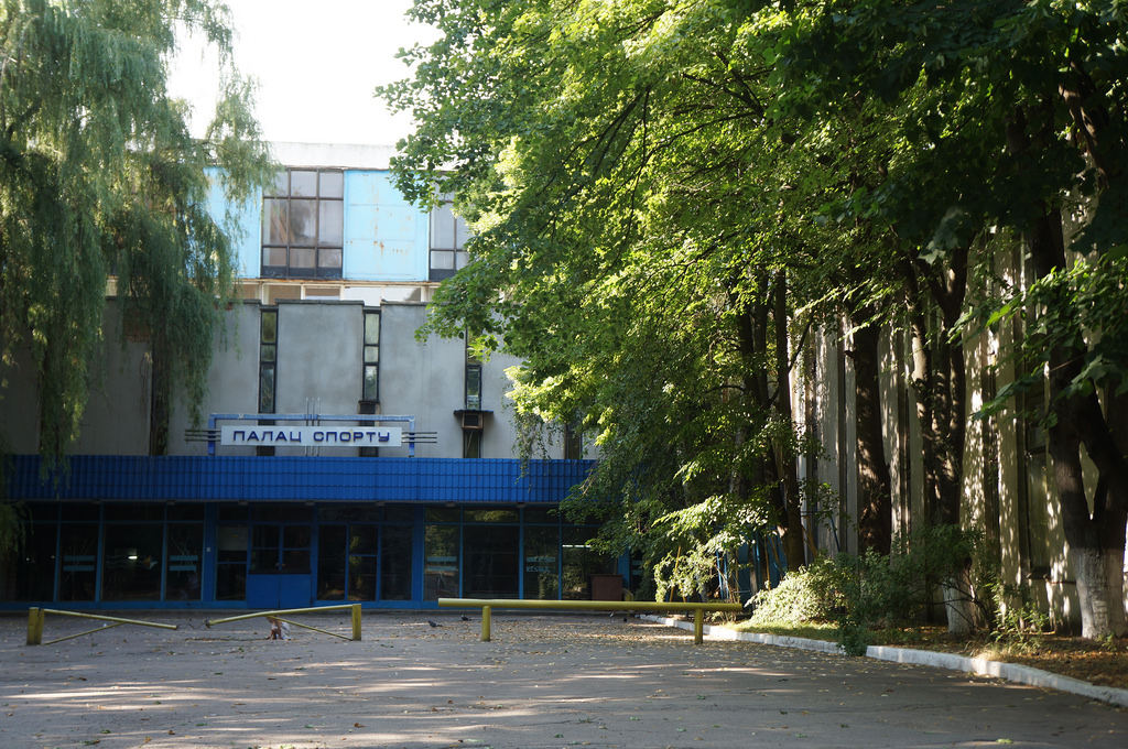 Palace of Sports of Dnipropetrovsk National University